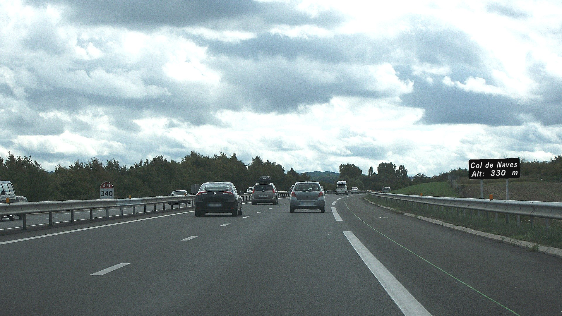 The col de Naves "mountain pass" on A71 autoroute towards Clermont-Ferrand (ele: 330 m / 1,083 ft). For lisibility reasons for the sign which indicates name and elevation of the mountain pass, the picture has been retouched.